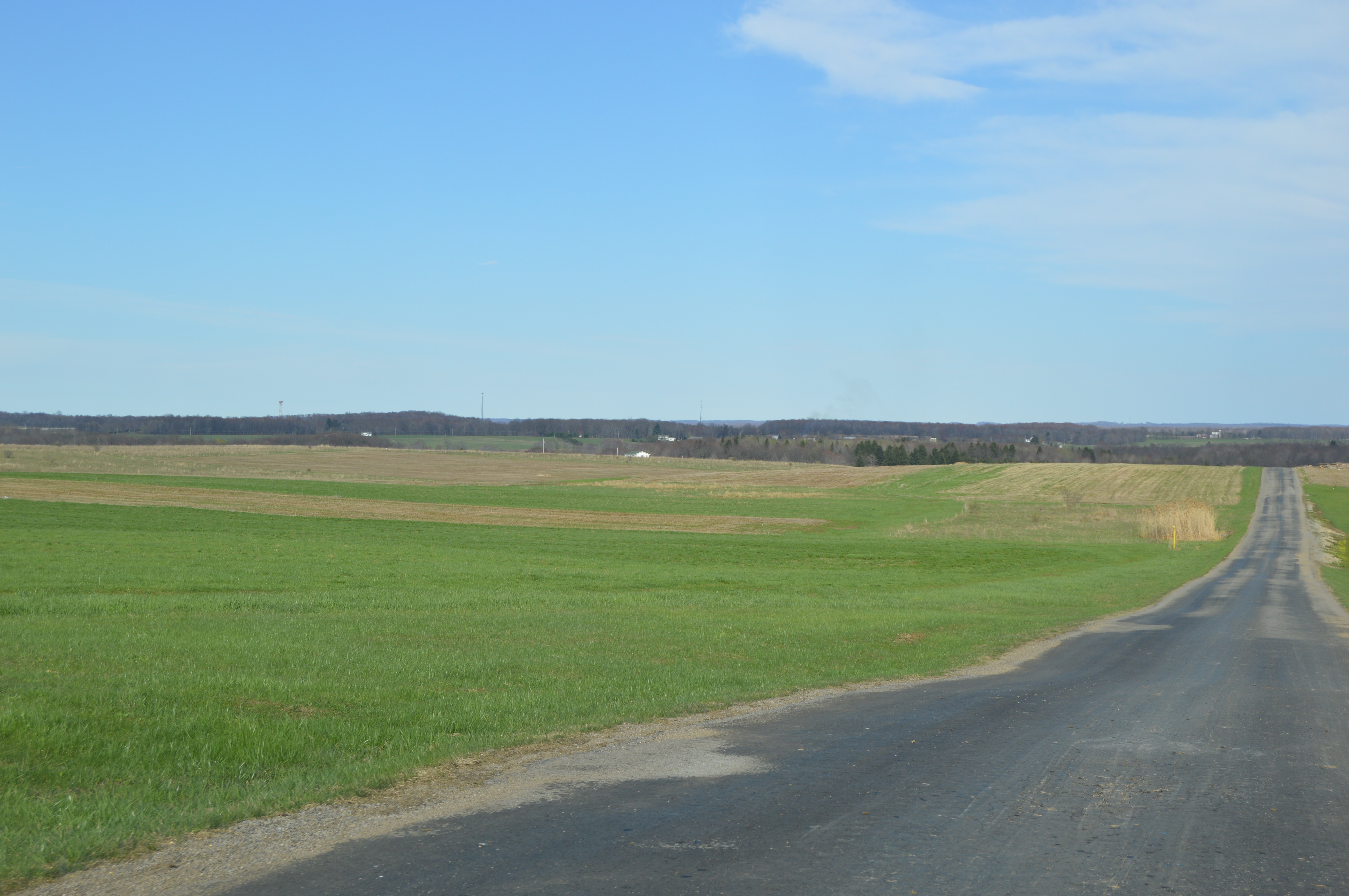 Pasture fields in Washington Township, Lawrence County, Pennsylvania, United States. Photo looks northeast from Jackson School Road about 1/3 mile east of U.S. Route 19.